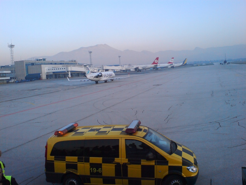 sarajevo airport